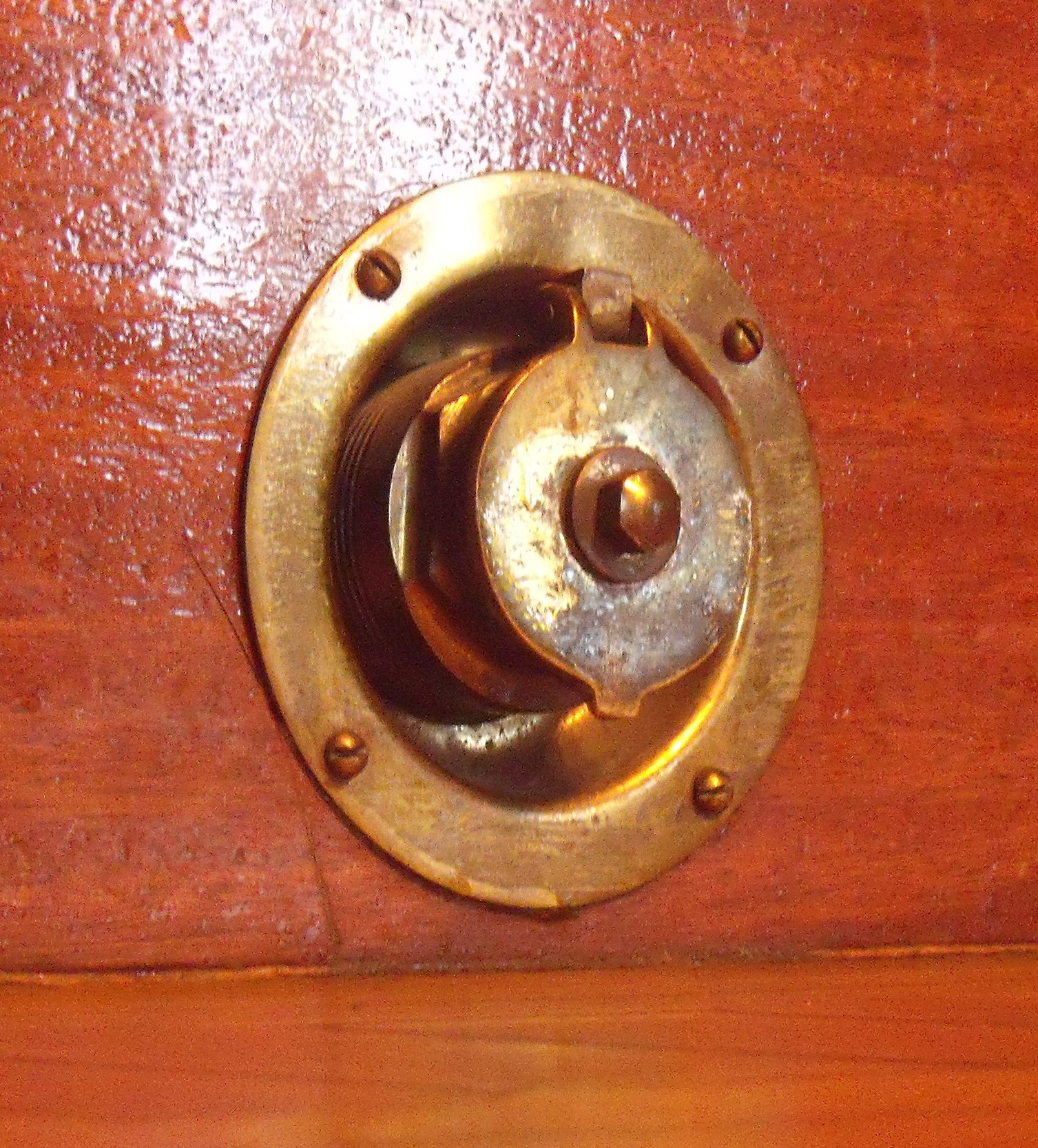 Central vacuum inlet (1918-1919), Dinning room, Oscar Dufresne House (Château Dufresne), 4040 Sherbrooke Street East, Montreal, Quebec, Canada.